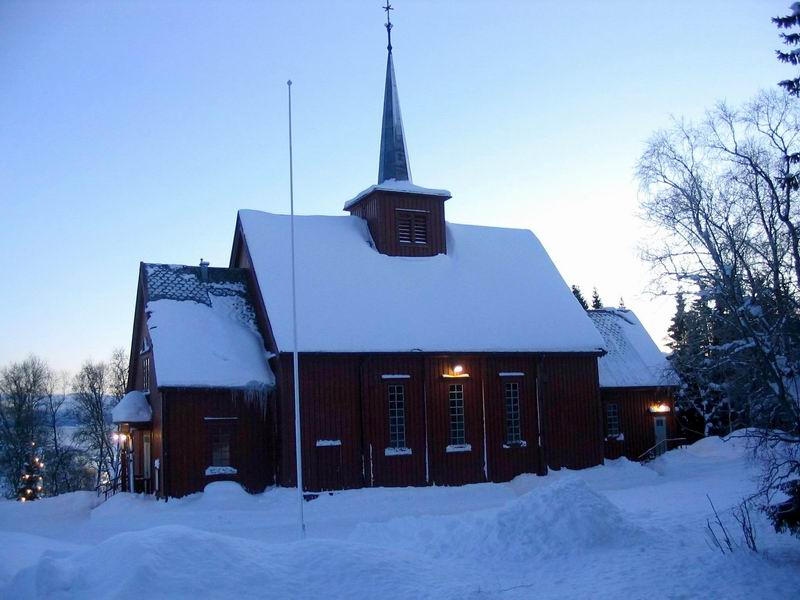 Sandtorg church close to Harstad